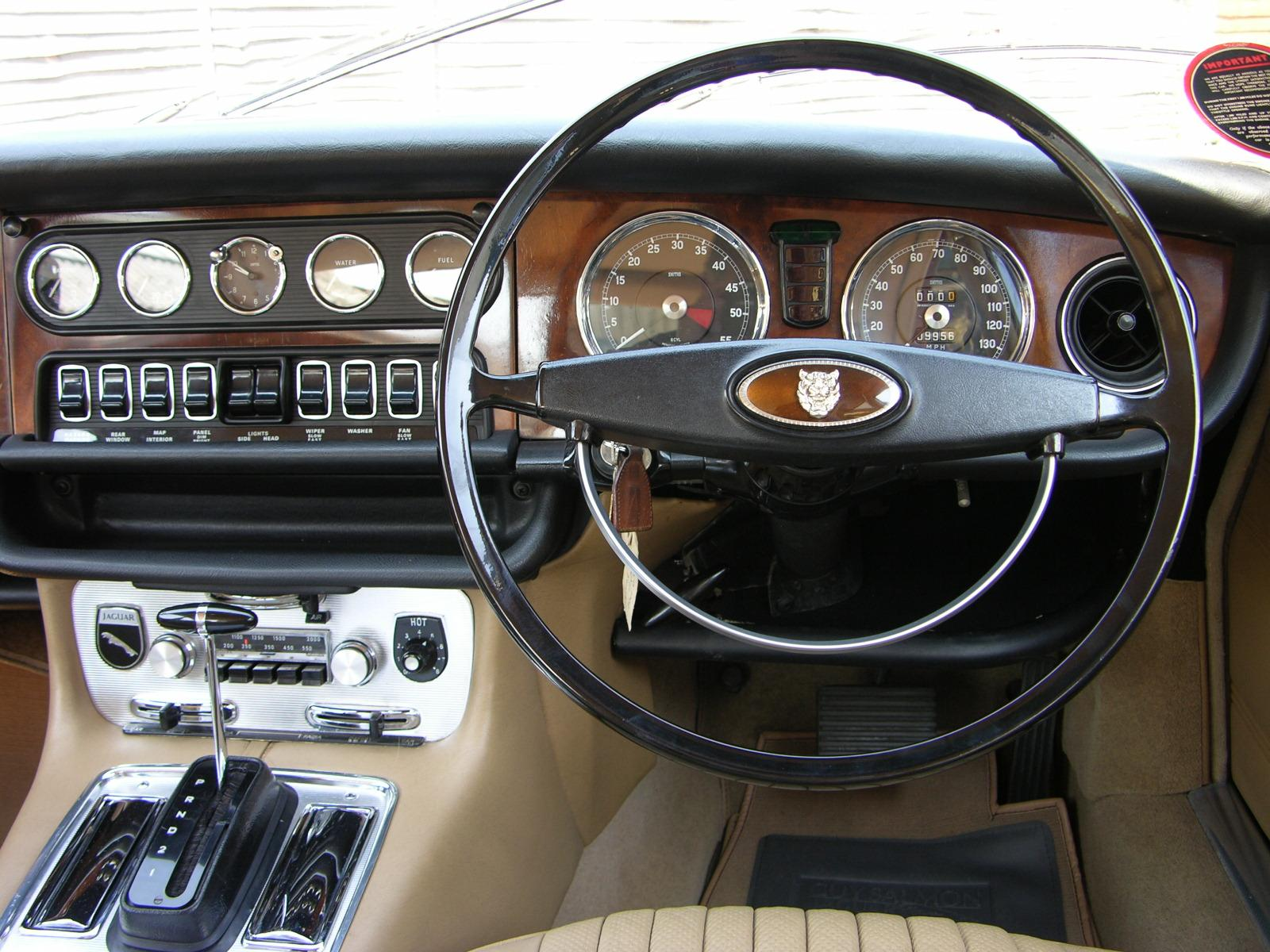 1970 Jaguar XJ6 4.2 Series 1